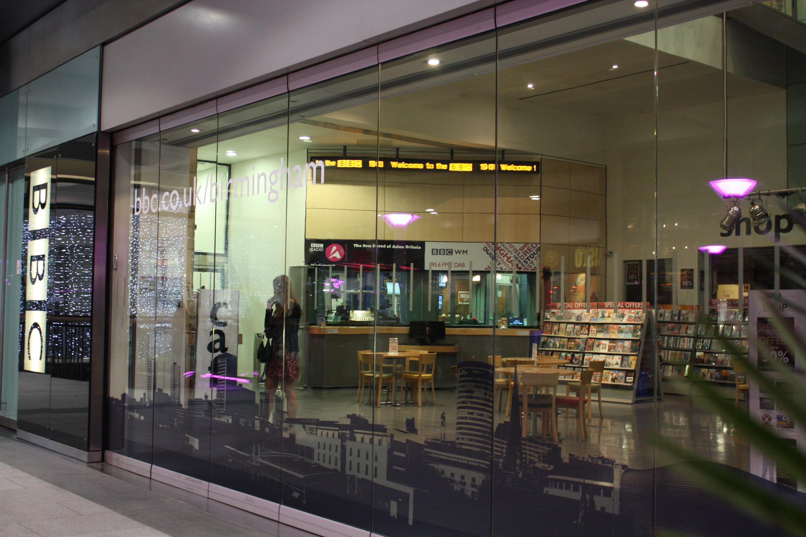 BBC Birmingham Studio in The Mailbox